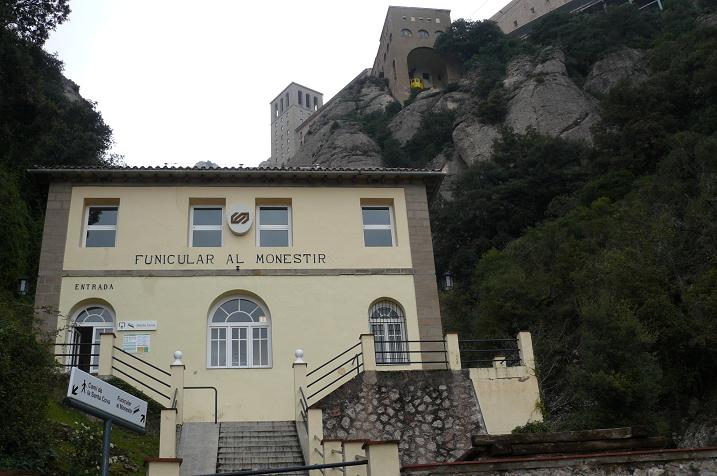 Funicular de la St Cova (Montserrat). Lower Station.